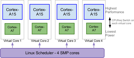 ARM big.LITTLE, see also HSA